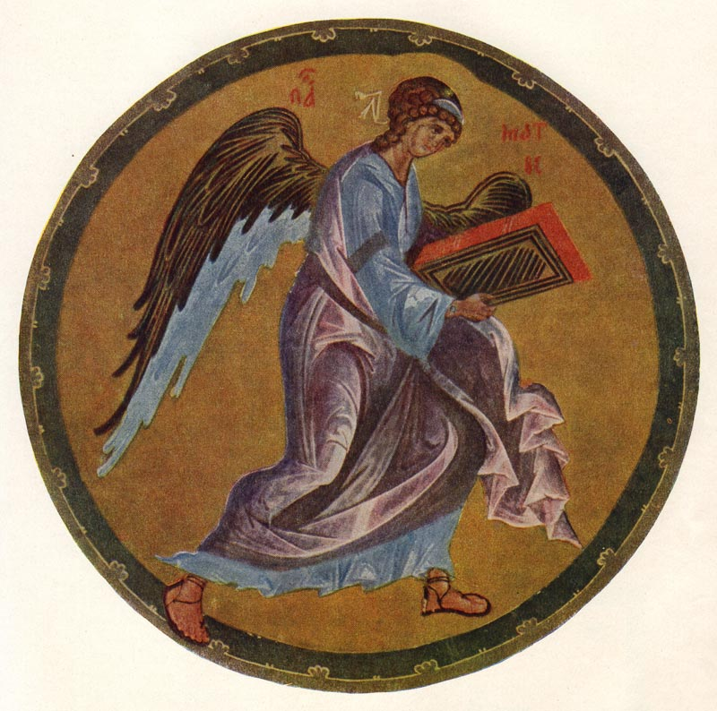 The Angel of Matthew from the Khitrovo Gospel (ca. 1395).